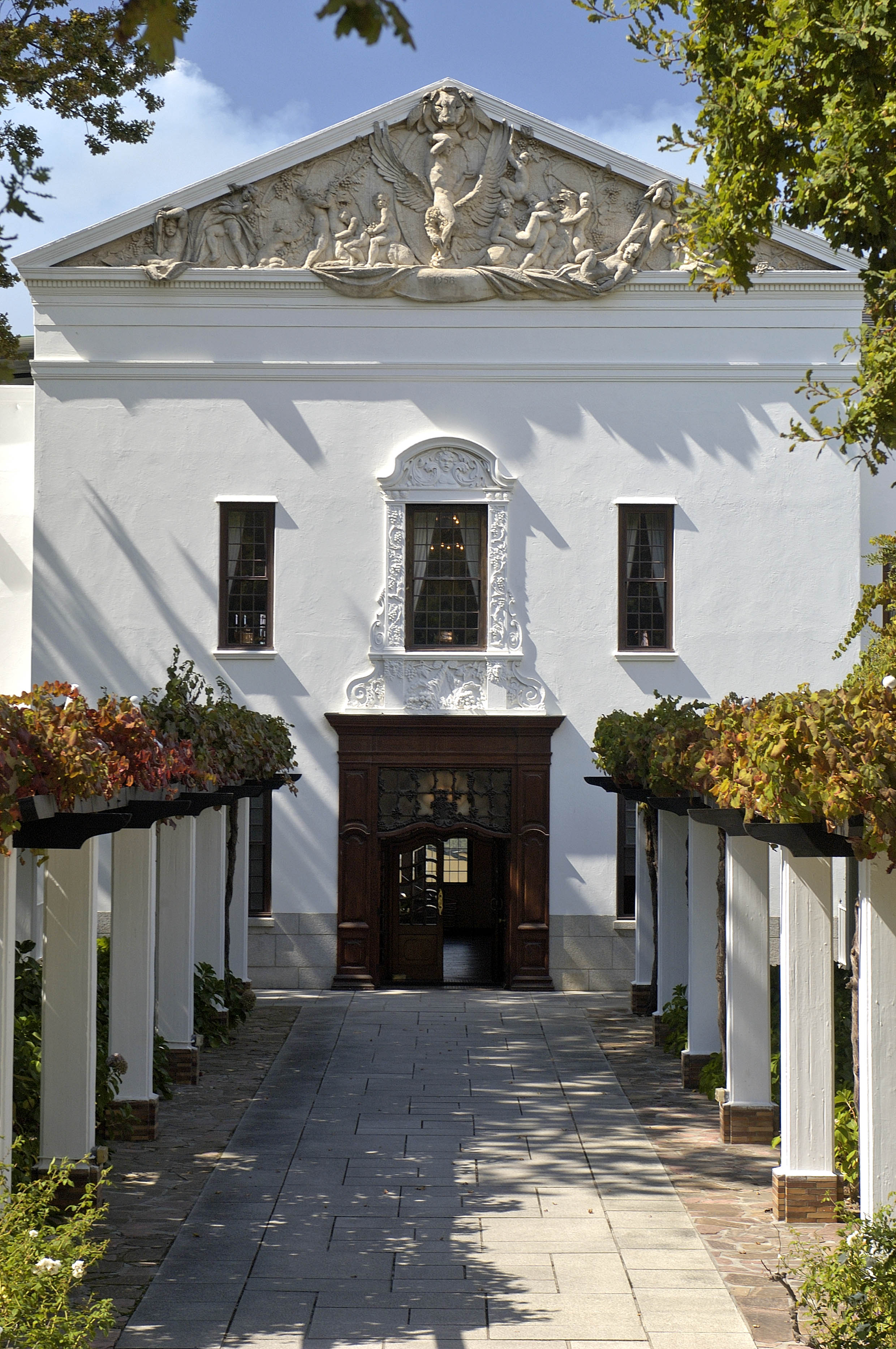 Entrance to KWV Head Office in Paarl, South Africa.